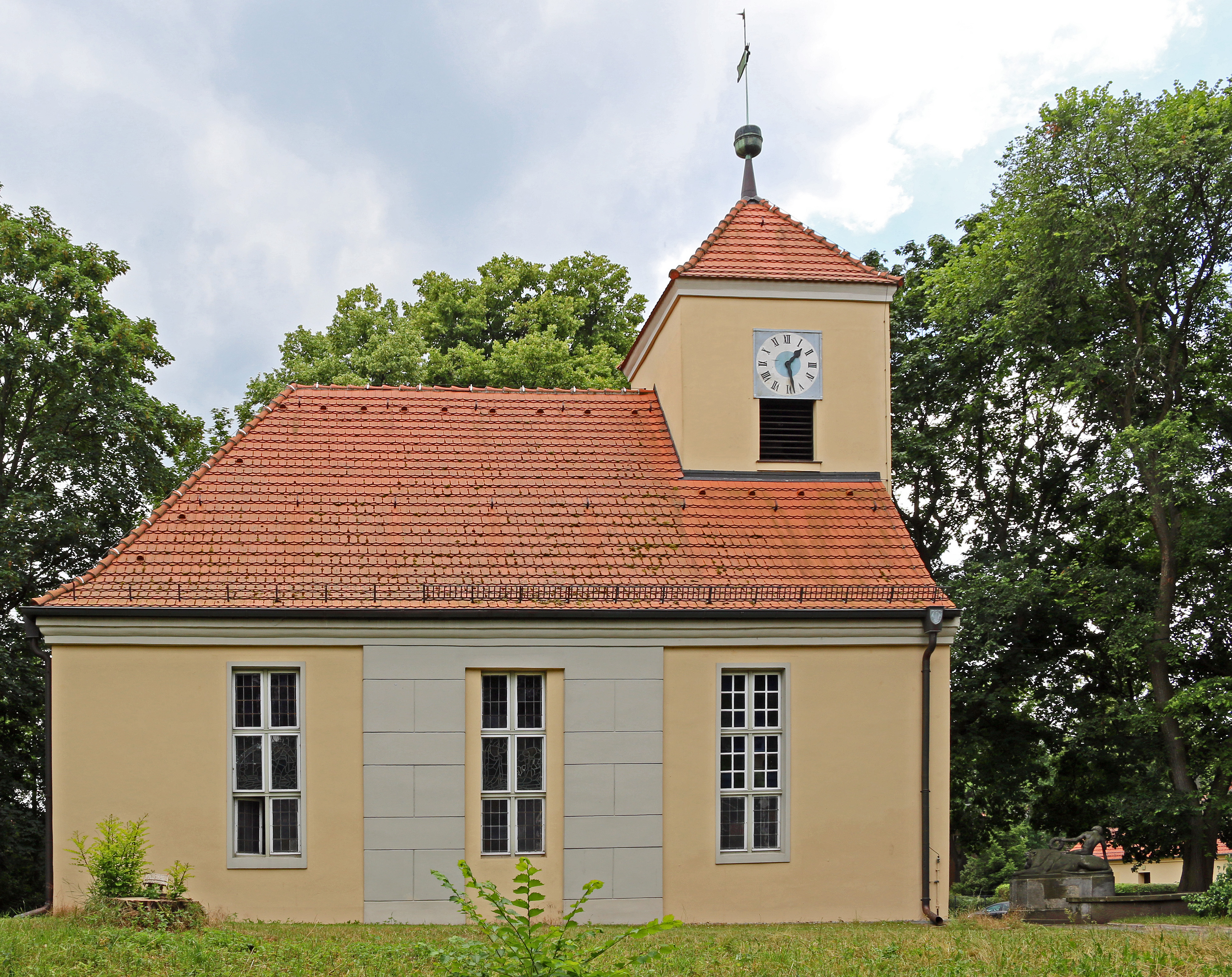 Berlin-Schmoeckwitz, village church.